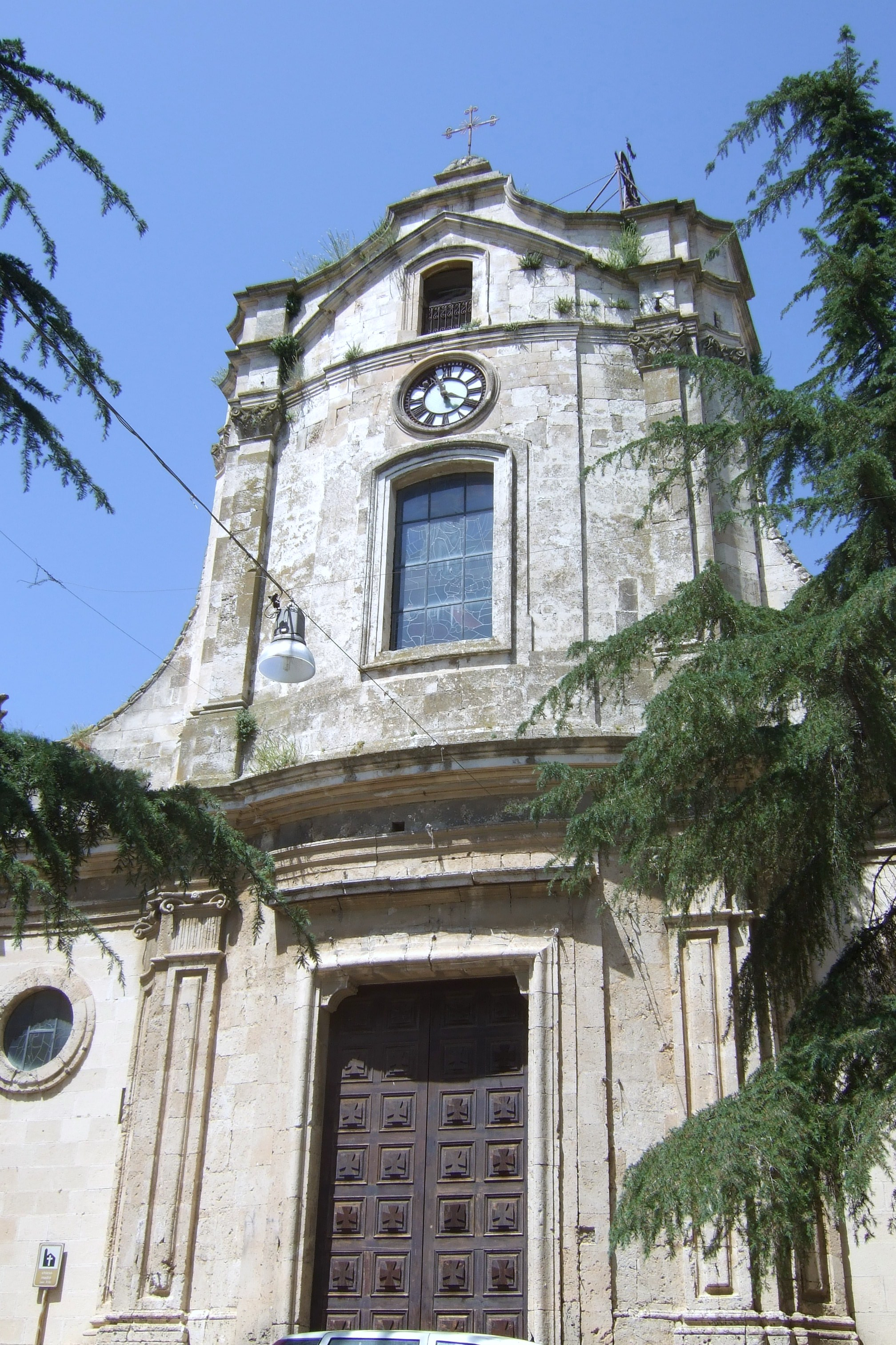 Facade of Chiesa Madre in Valguarnera Caropepe (Province of Enna - Sicily)